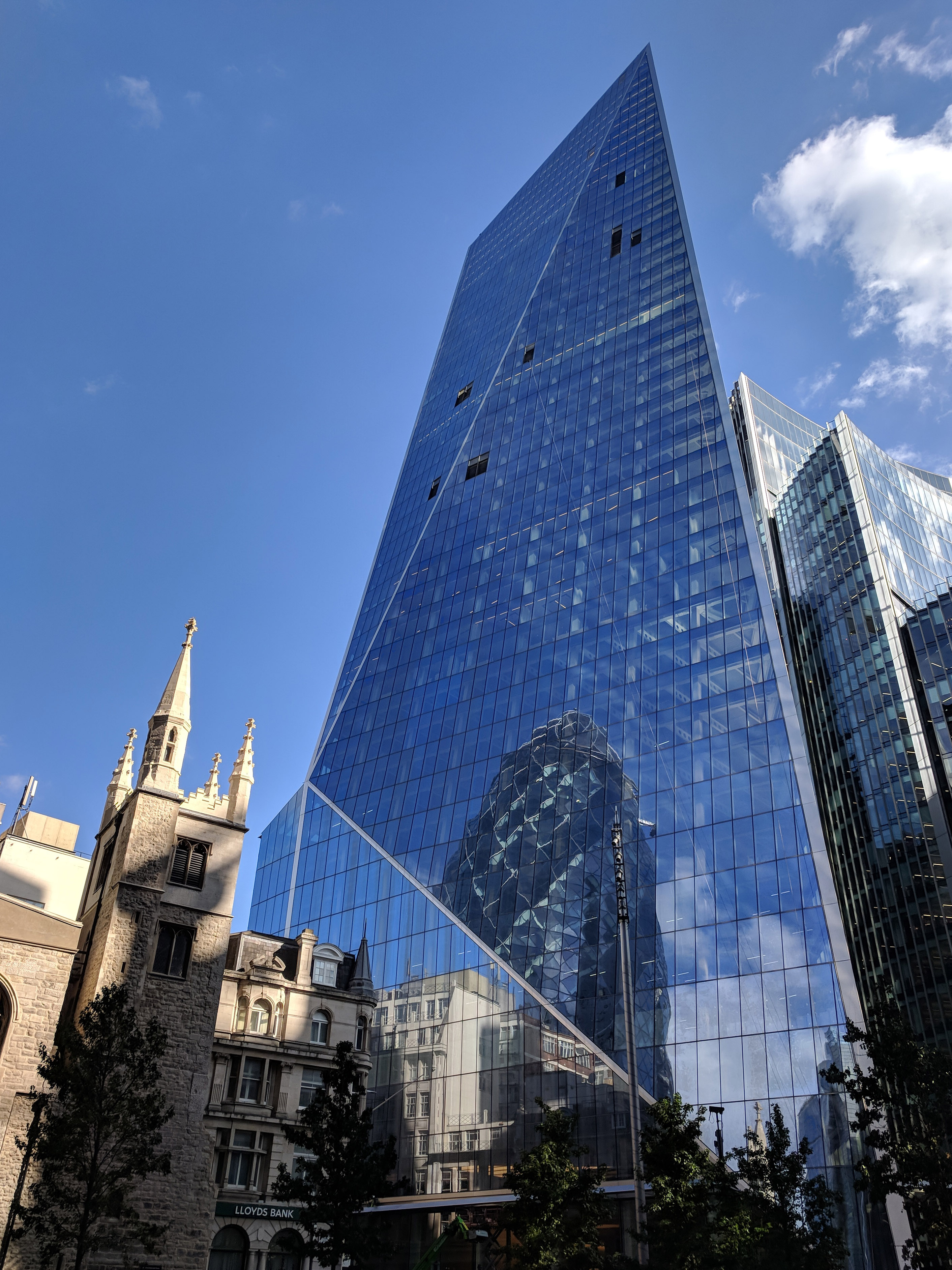 "The Scalpel" skyscraper in London, looking basically complete.